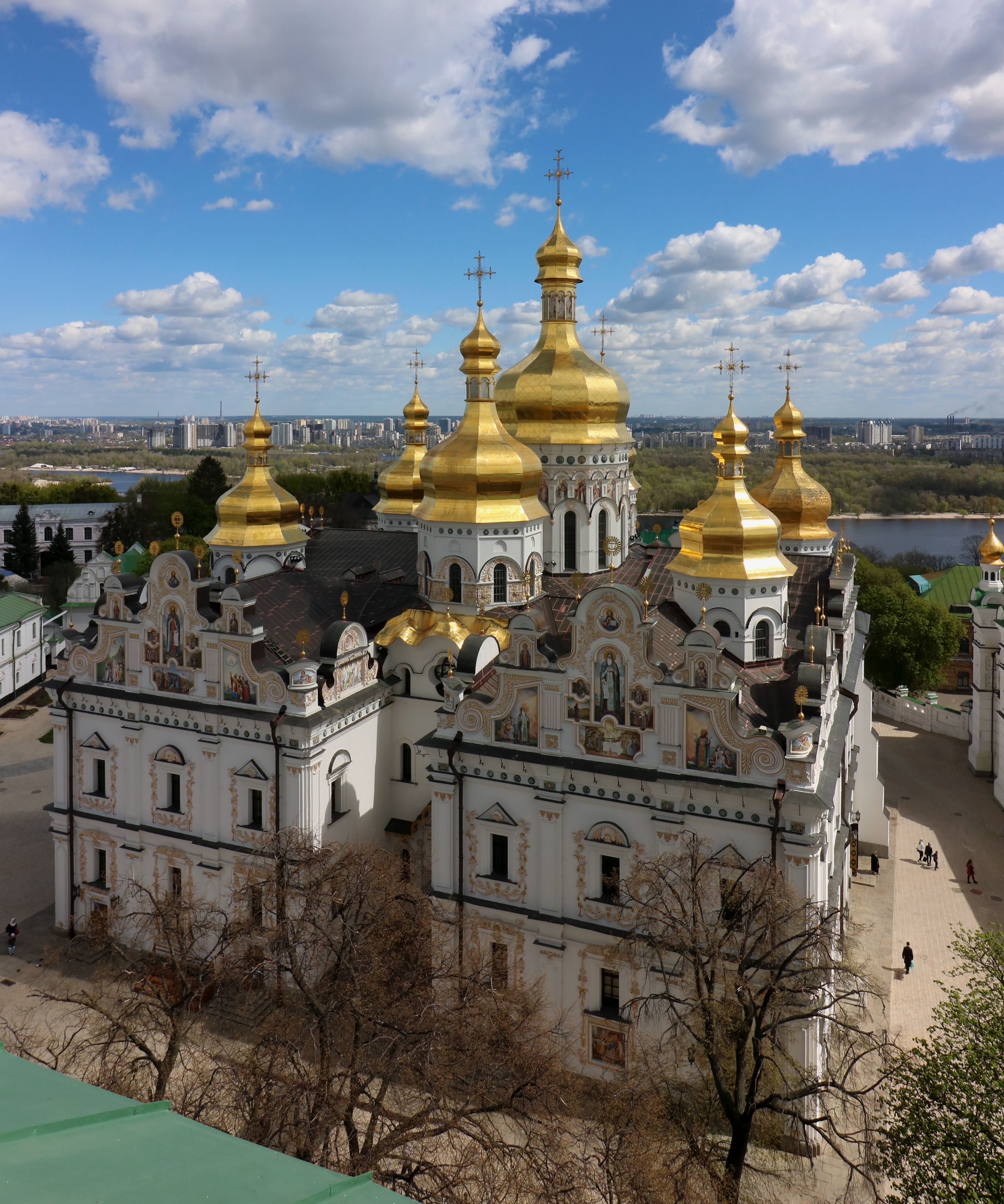 The Dormition Cathedral in the Kiev Pechersk Lavra